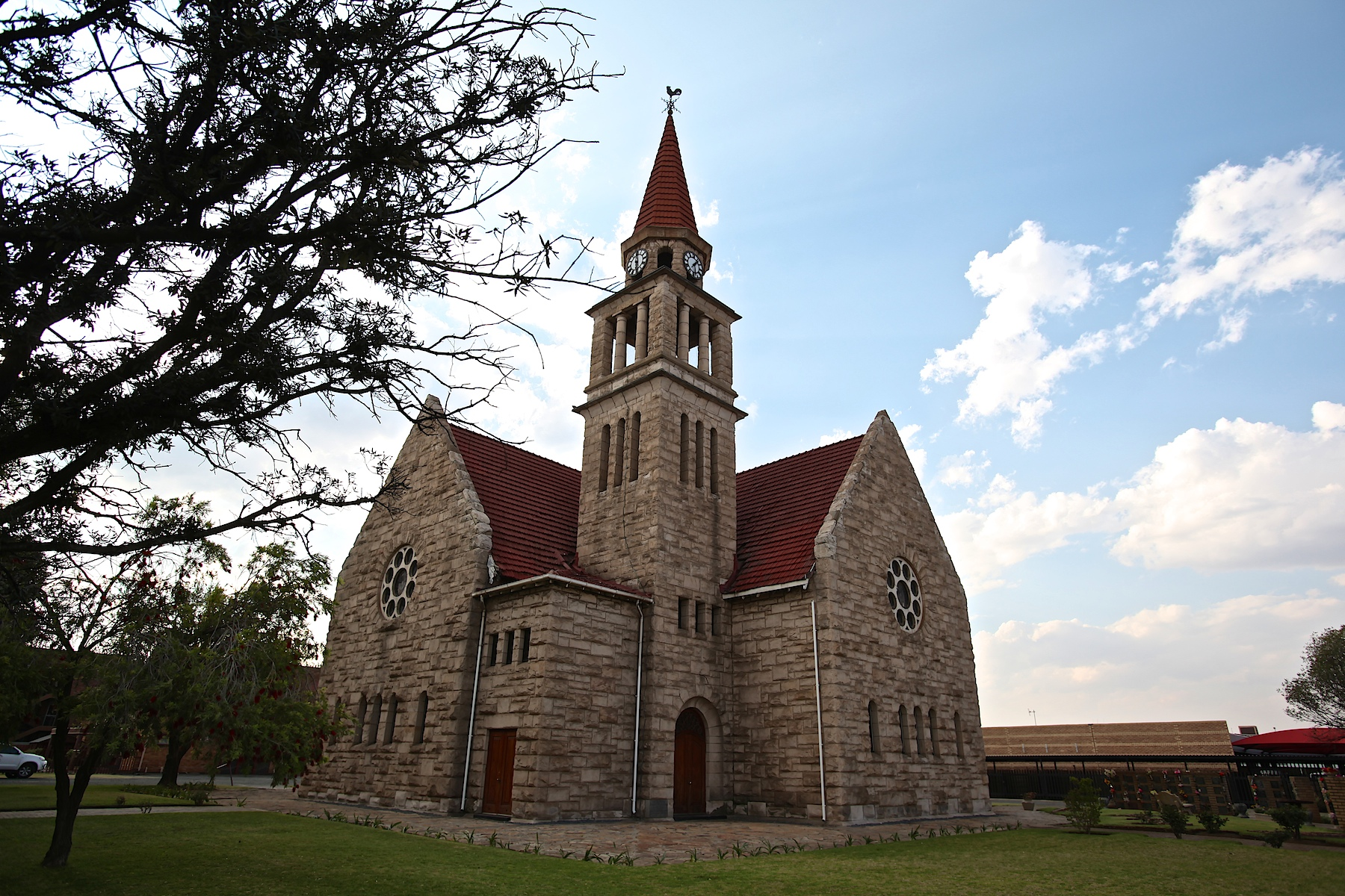 Dutch Reformed Church, Vereeniging This media shows a South African Protected Site with SAHRA file reference 9/2/277/0011.